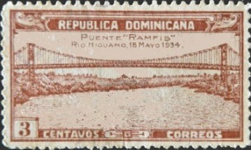 Stamp issued to commemorate the inauguration of Ramfis Bridge over the Higuamo River in May 1934. Trujillo's son Rafael Leonidas ("Ramfis") was not yet 5 years old. Many more 'family' stamps were to follow until the very end of the Trujillo regime.